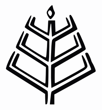 Modified symbol of the Romuvan faith.